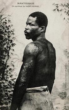 Louis-Auguste Cyparis, one and only survivor of the huge Mt. Pelée´s eruption, Martinique, May 8th 1902.